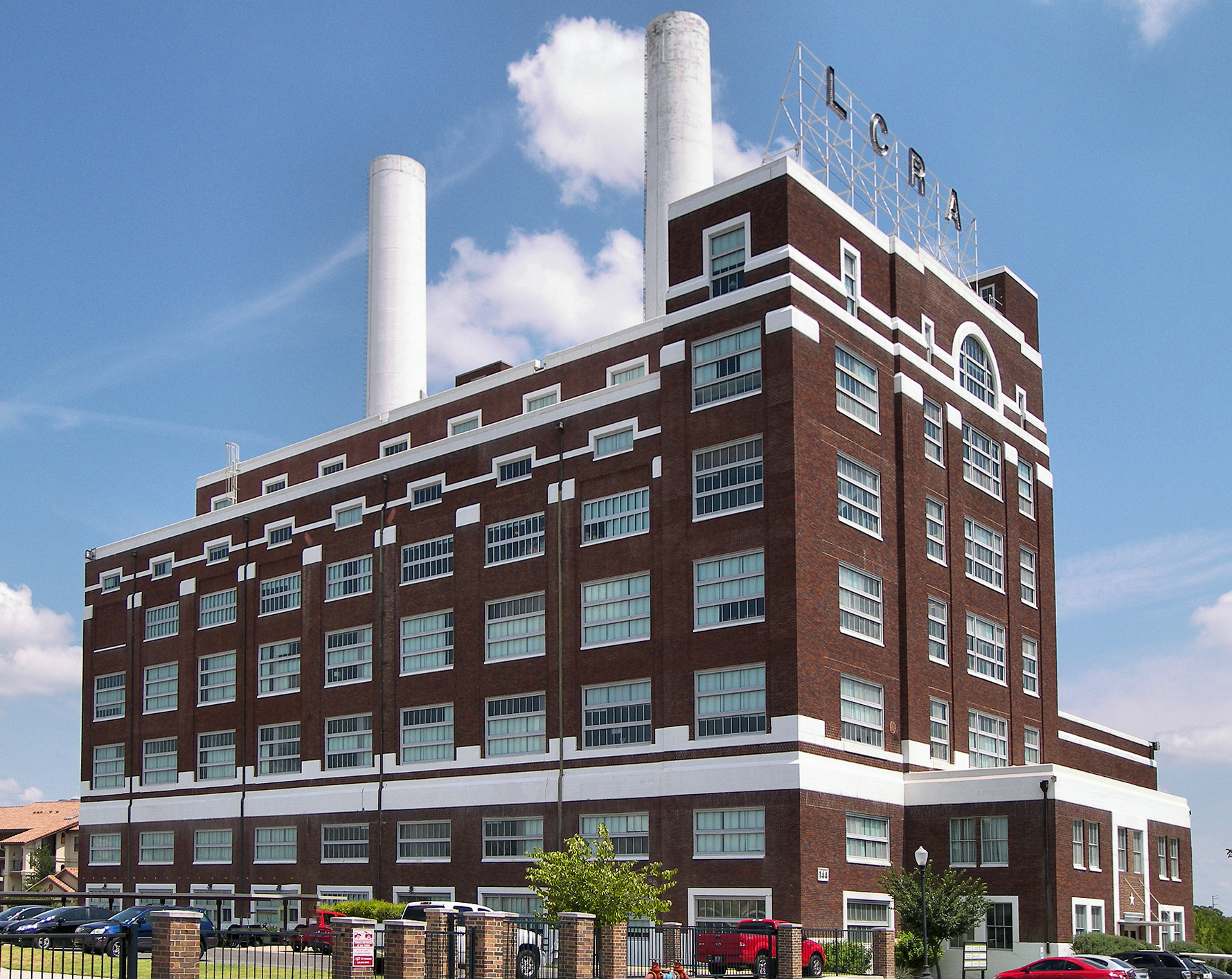 The former Comal Power Plant in New Braunfels, Texas, United States. The building was listed on the National Register of Historic Places on August 20, 2004. The power plant and grounds were converted to a mixed-use community in 2005.